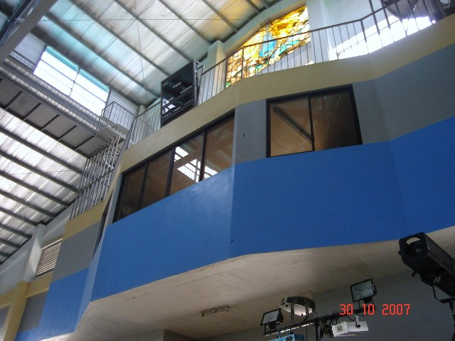 The control room of the Rogationist College of Silang, Cavite, Philippines gymnasium inside the gymnasium. This is where audio, video (for the projector), lighting et cetera are controlled.